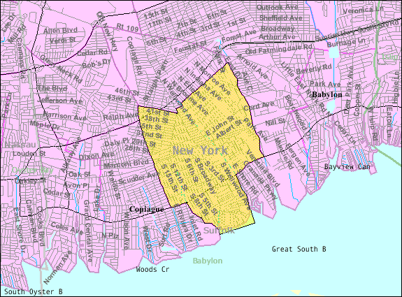 U.S. Census 2000 reference map for Lindenhurst